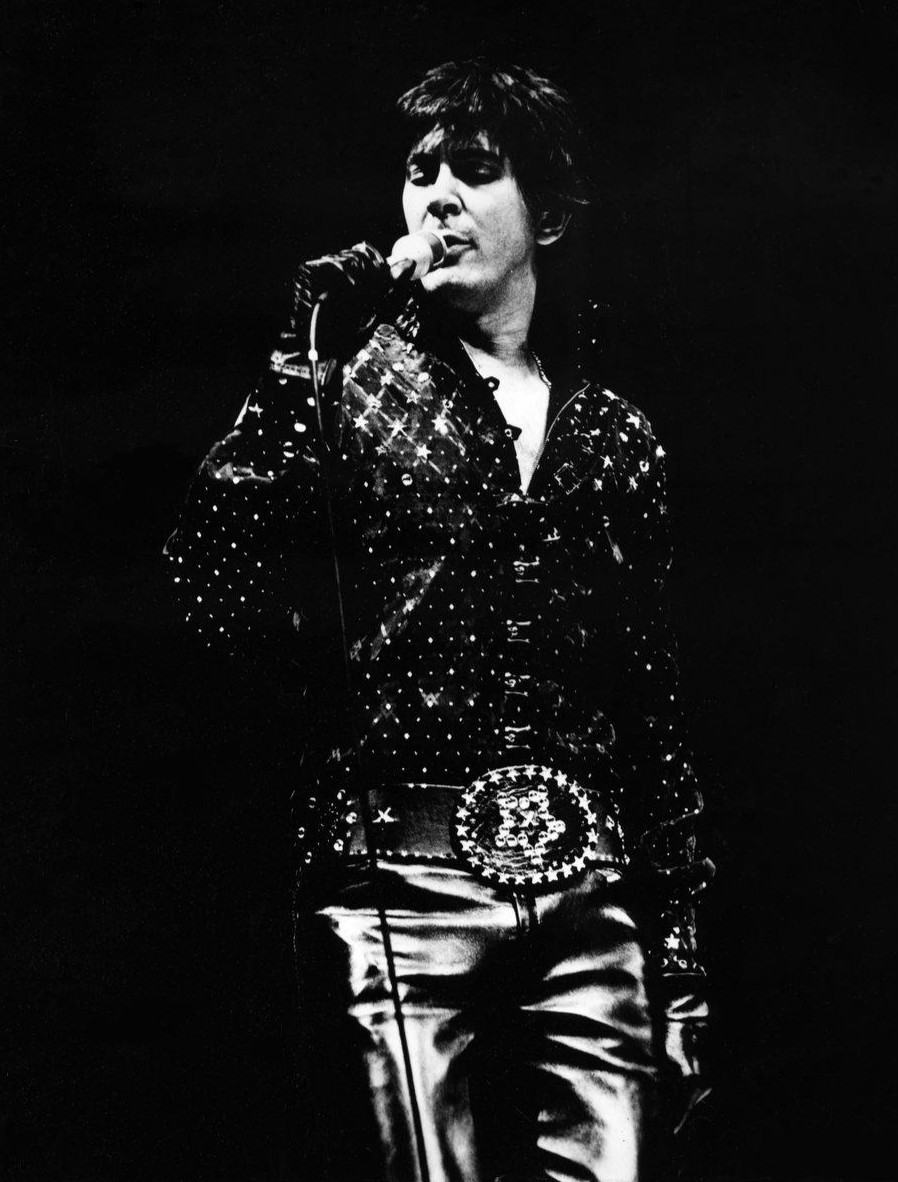 Photo of Frank Langella from the play The Tooth of Crime.